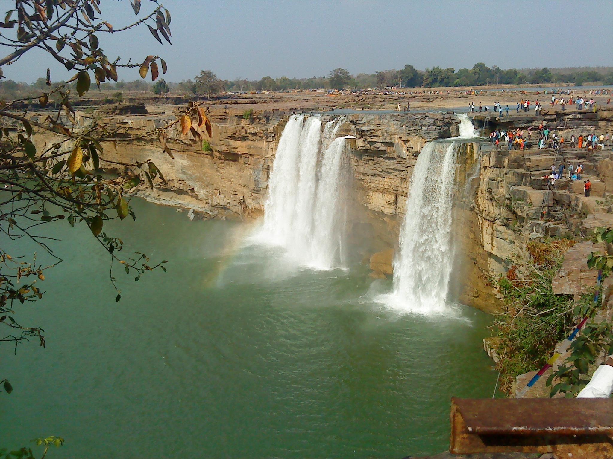 a